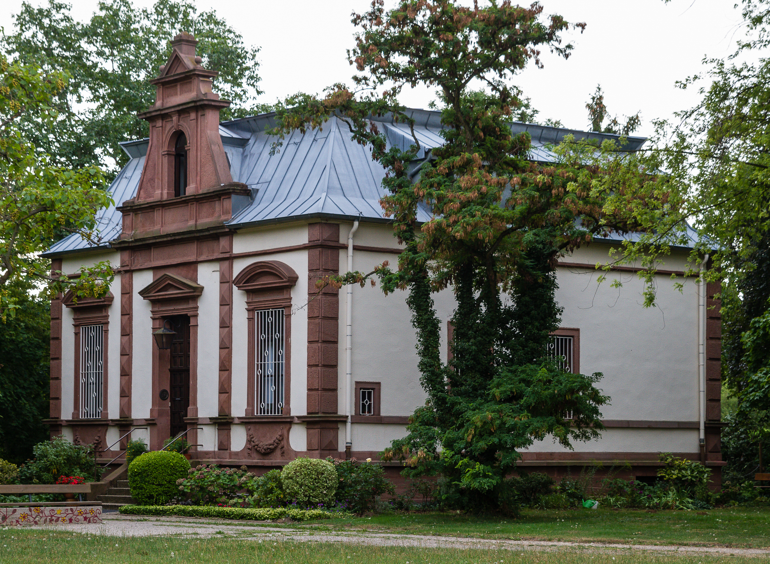 Designation: Infirmary Location: Grainstraße House number: 6 Place: Neustadt an der Weinstrasse, Rhineland-Palatinate Construction time: 1886–89 Description: Former infirmary or insulating buildings (quarantine station). Single-storey new Renaissance building; Architect Matthias Lichtenberger.